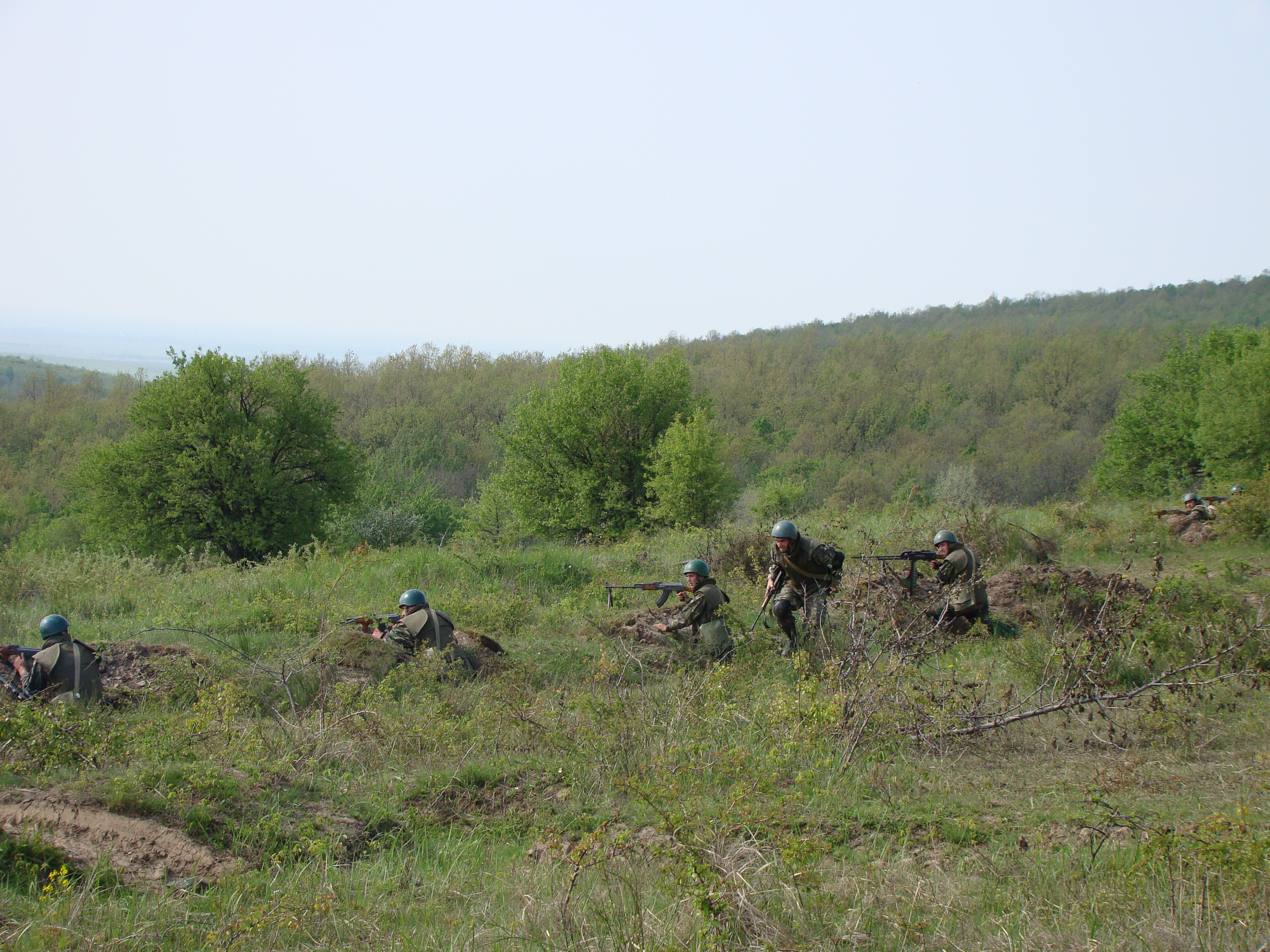 Romanian soldiers during a military exercise of the 191st Infantry Battalion.